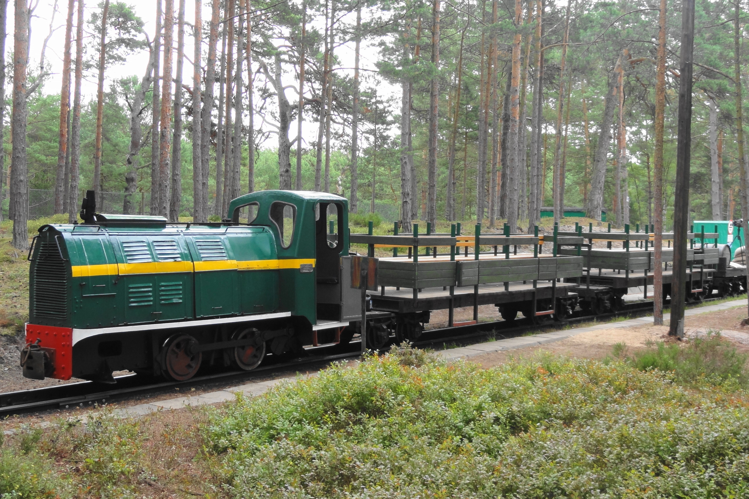 Hel, Museum of Coastal Defence